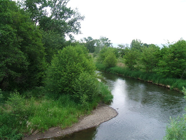 The site of the Walla Walla Cayuse village. At the time of the Whitman Incident, this was where Tiloukaikt and his tribe lived. The river valley here has tight bluffs and nice bottom land.